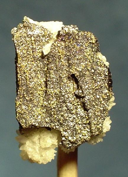 Melonite, Calaverite Locality: Cresson Mine, Eclipse Gulch, Cripple Creek District, Teller County, Colorado, USA (Locality at ) Size: 1.3 x 0.9 x 0.4 cm. Melonite is an uncommon nickel telluride. This fine thumbnail from the Cresson Mine at Cripple Creek features at rich plate of melonite pseudomorphing calaverite (gold telluride) crystals and is very nicely accented by a small rosette of quartz crystals. The melonite rests on a thin crust of tiny quartz crystals. Highly representative of the species and historic locale. Probably very old material, too.